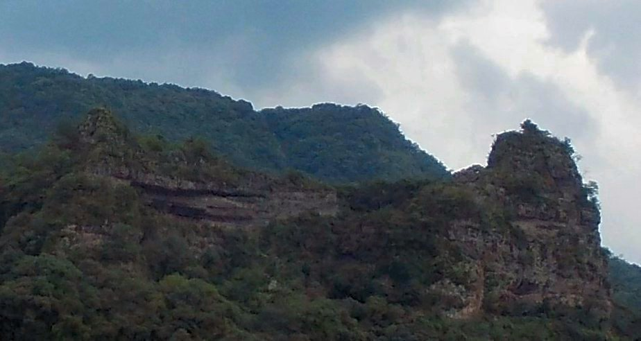 Fururakan in Rakan-ji Temple, Nakatsu, Oita, Japan